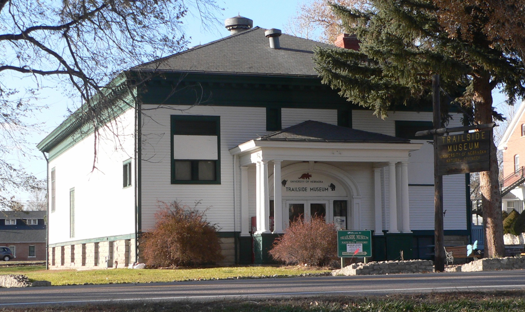 Trailside Museum of Natural History, formerly the Army Theatre, at Fort Robinson in Sioux County, Nebraska.